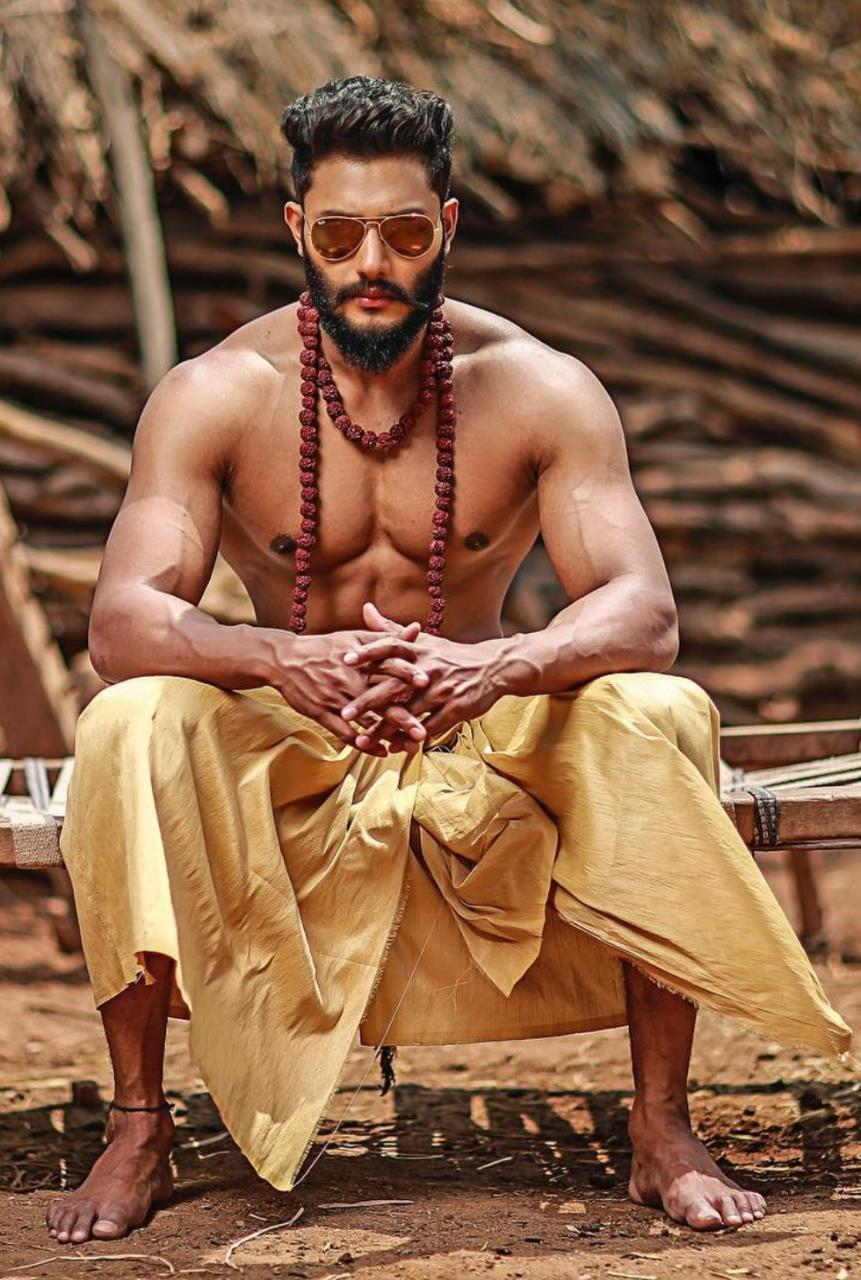 Prince Cecil in 2018